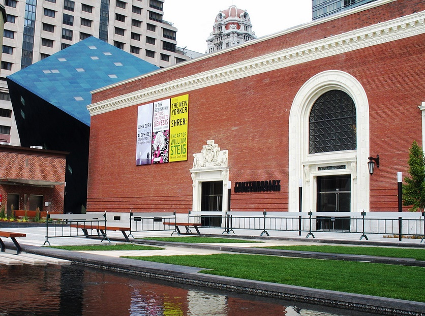 The brick portion was once a power station -- the new blue cube, and the whole interior, were designed by Daniel Liebeskind. It wasn't open yet the morning we walked by, so I only got a few interior shots the following day.